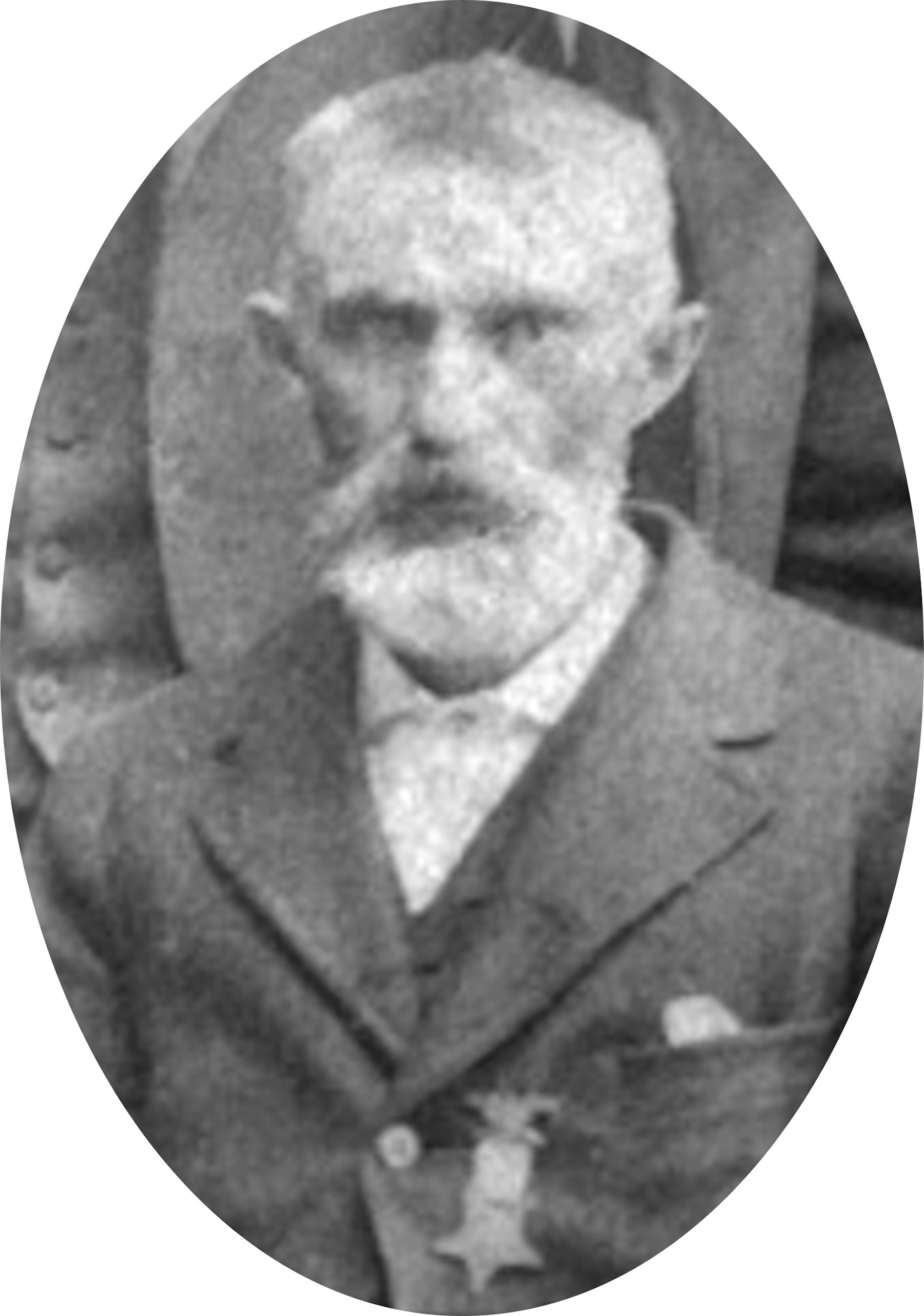 MoH winner Richard W. DeWitt 1905